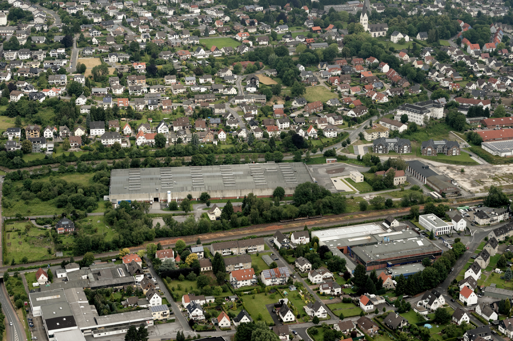 Industriegebäude an der Bahnsstrecke Schwerte-Warburg in Wickede (Ruhr) (Fotoflug Sauerland Nord) The making of this document was supported by the Community-Budget of Wikimedia Germany.